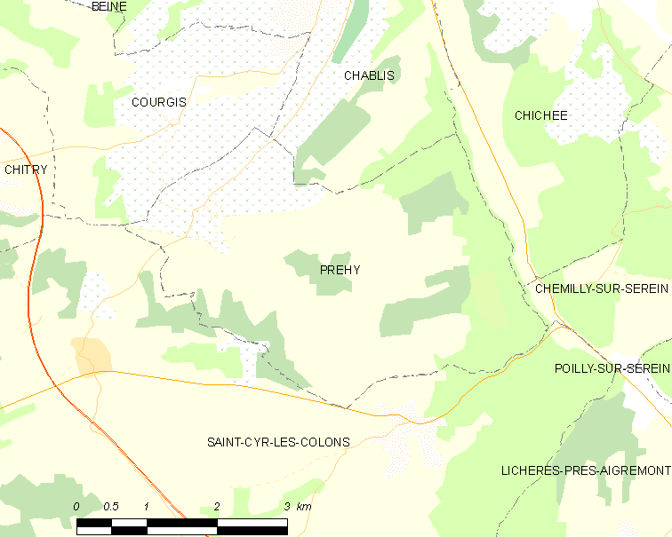 Map of French municipality Préhy